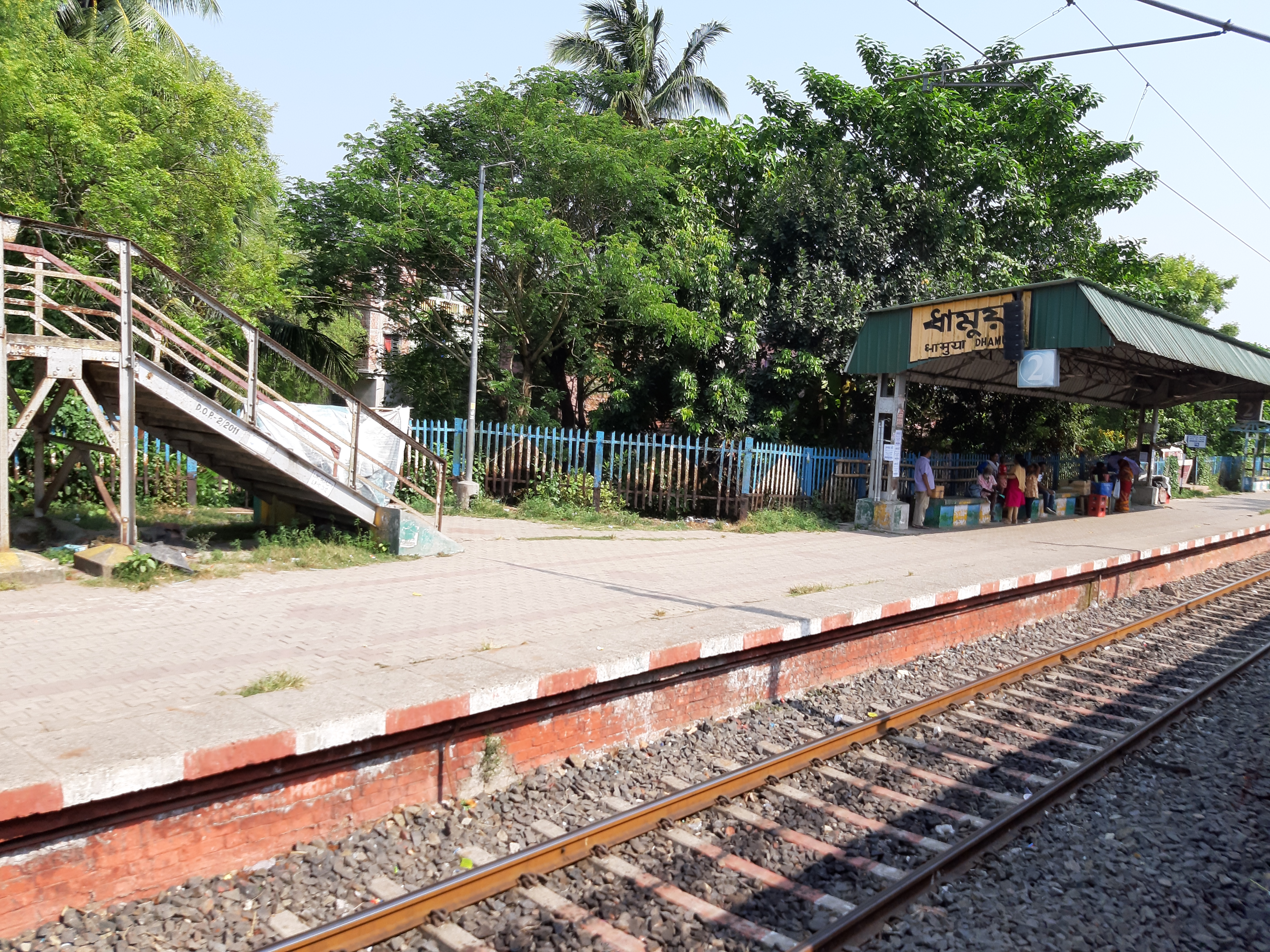 Baruipur To Diamond Harbour Railway